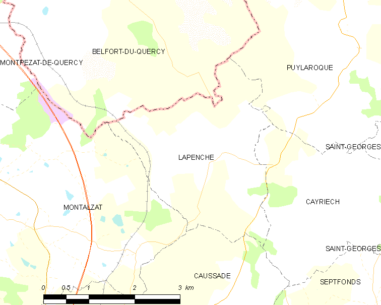 Map of French municipality Lapenche